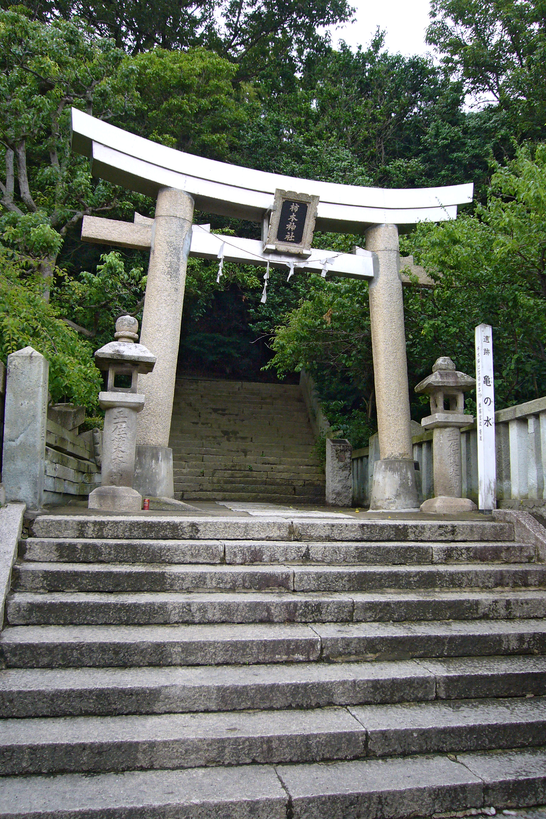 Kakimoto-jinja, Akashi, Hyogo prefecture, Japan